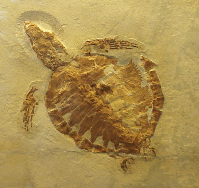 Fossil of Rhinochelys nammourensis, an extinct turtle